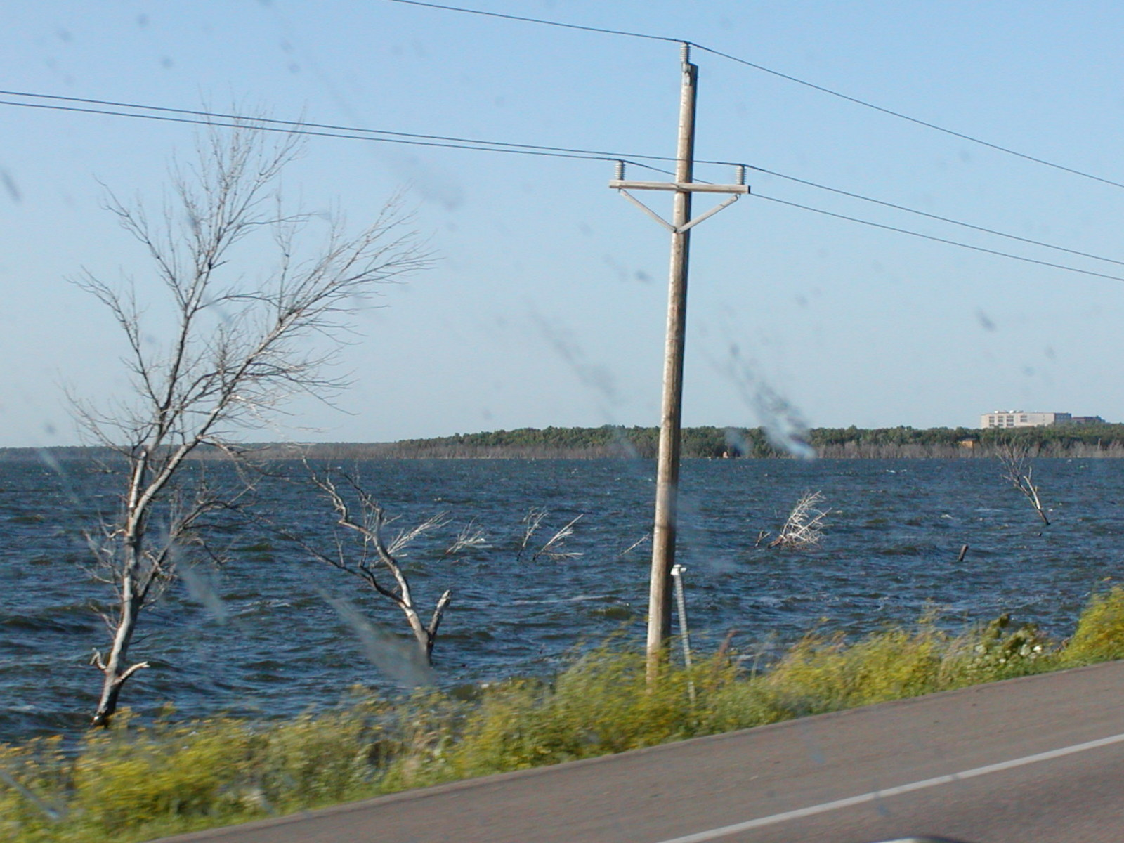 Partially submerged trees in Devil's Lake. Photo taken in 2002 by Greg Hume